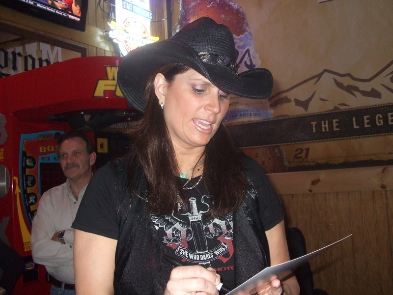 Signing autographs at the Rusty Spur, Fort Wayne, IN, Feb. 27, 2010